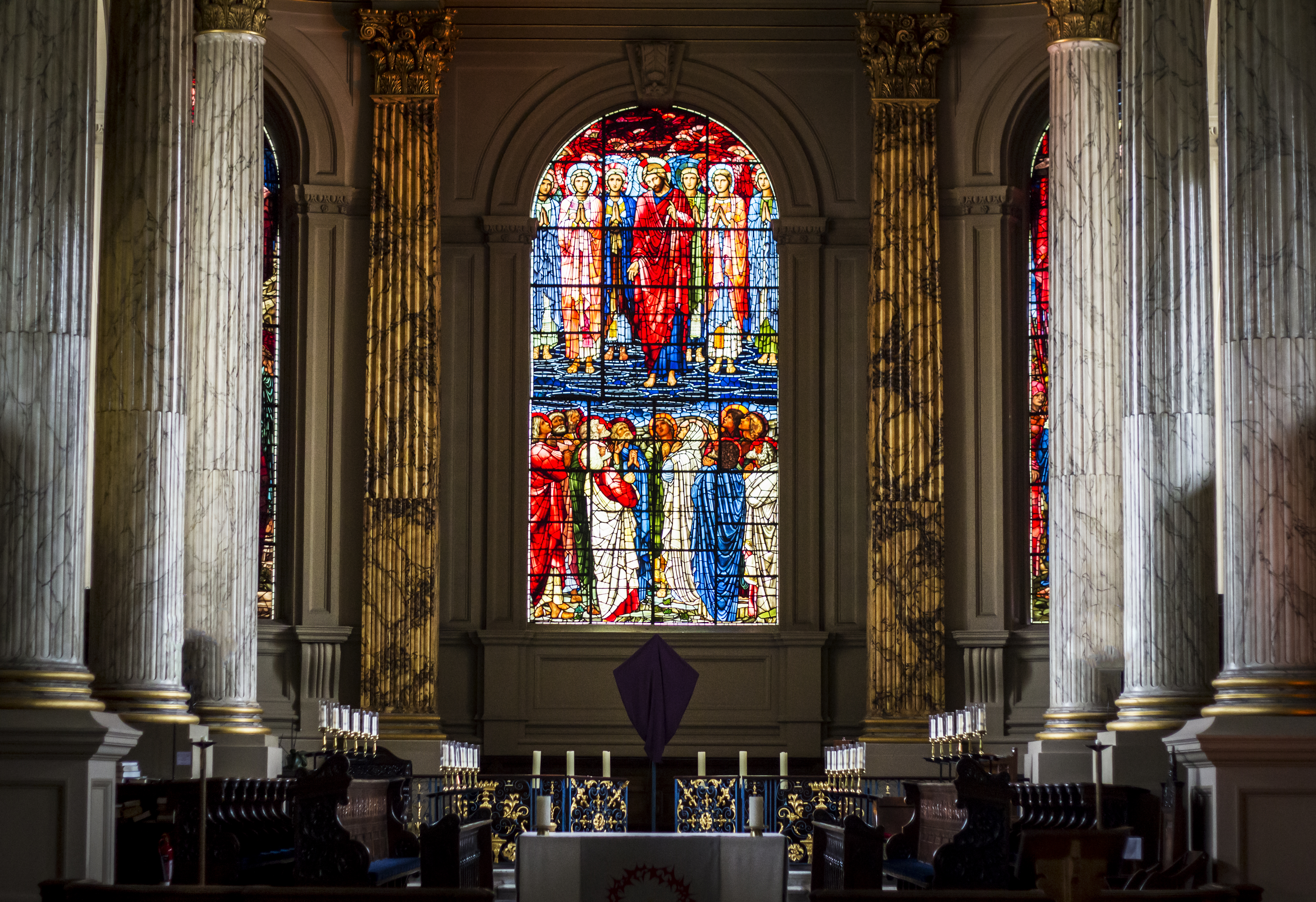 The chancel of St. Philip's Cathedral, Birmingham, showing stained glass by Edward Burne-Jones